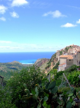 Panorama of the old town grisola Schina